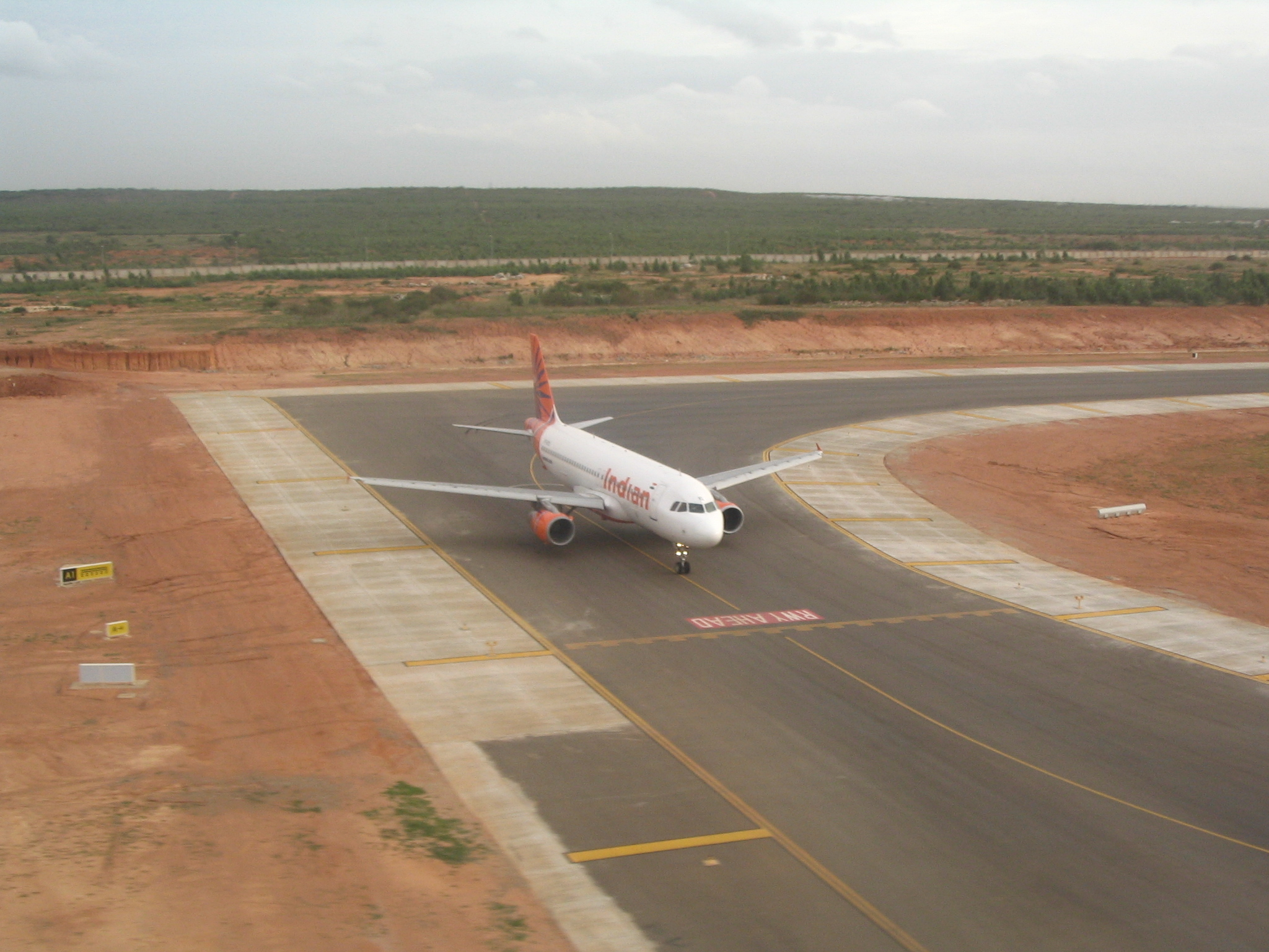 Indian Airlines aircraft waiting for takeoff at Bengaluru International Airport.